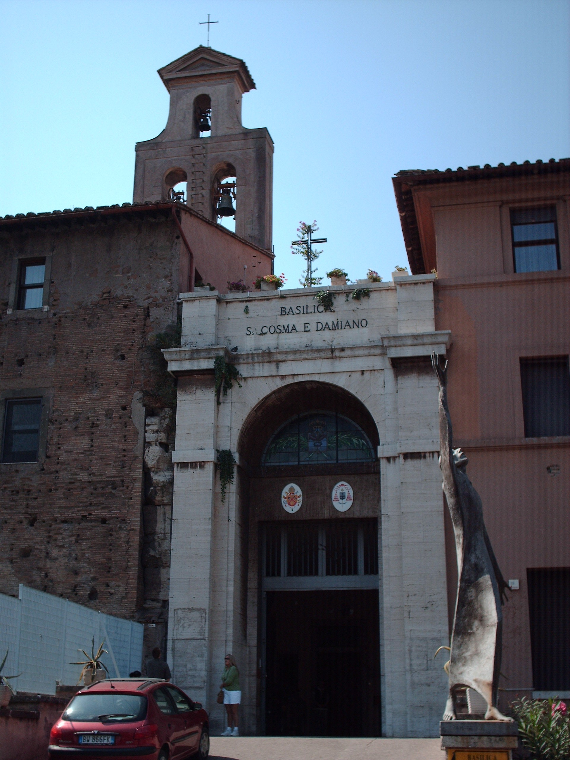 Church of Saint Cosma and Damiano in Rome, titular church